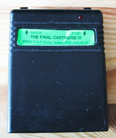 The Final Cartridge III - a utility cartridge for the Commodore 64 computer. Photo by the uploader.